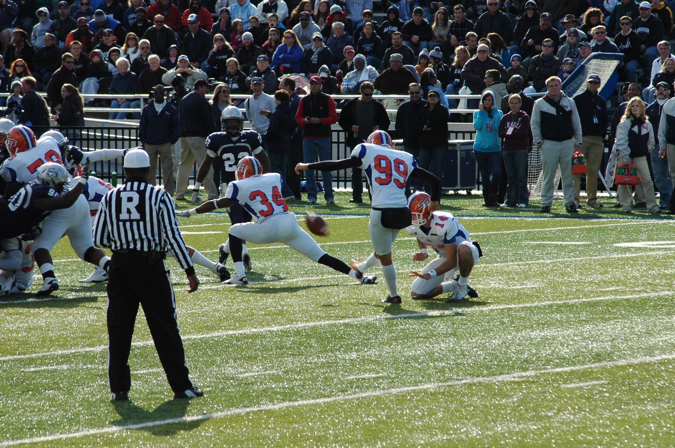 Photo of Savannah State Tigers vs Old Dominion Monarchs football team taken on November 6, 2010 in Norfolk, Virginia